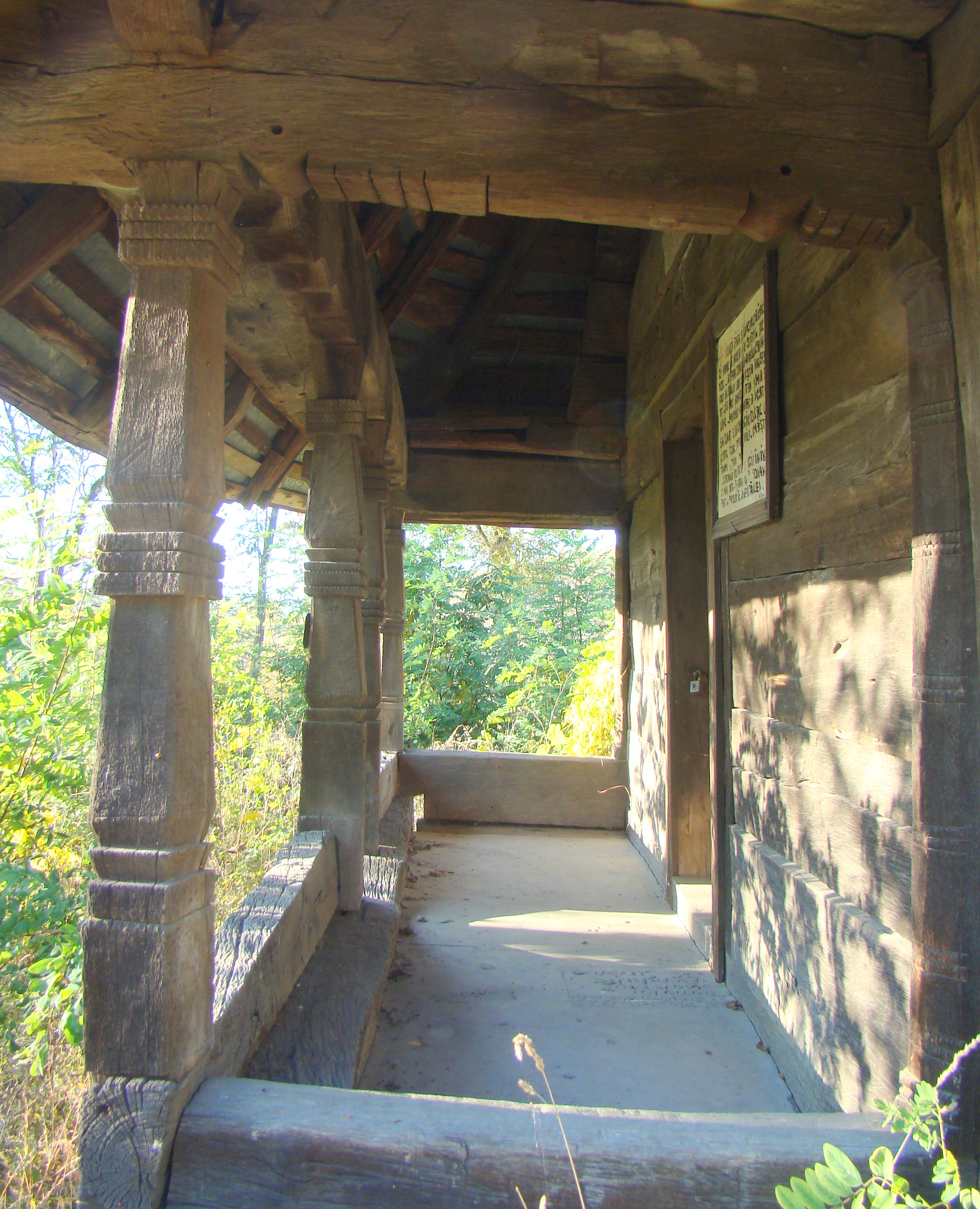 Wooden church in Larga, Gorj county, Romania